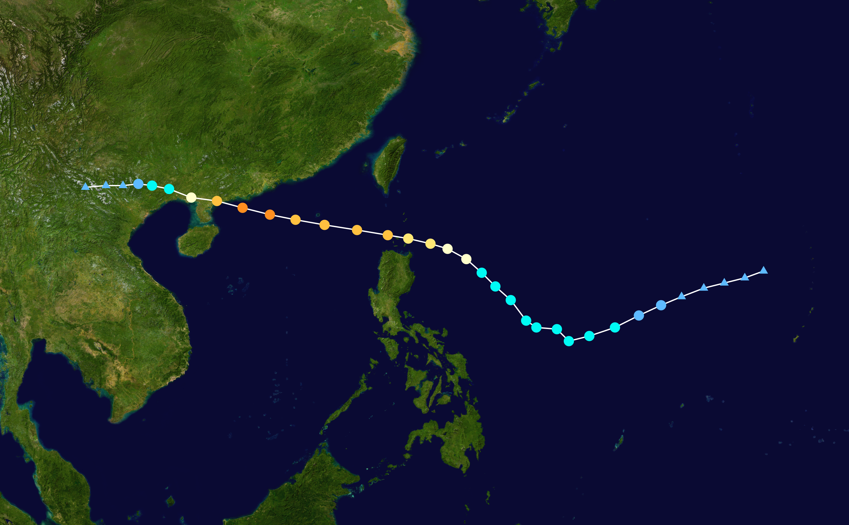 Track map of Typhoon Hagupit of the 2008 Pacific typhoon season. The points show the location of the storm at 6-hour intervals. The colour represents the storm's maximum sustained wind speeds as classified in the Saffir–Simpson scale (see below), and the shape of the data points represent the nature of the storm, according to the legend below. Saffir–Simpson scale Tropical depression≤38 mph≤62 km/h Category 3111–129 mph178–208 km/h Tropical storm39–73 mph63–118 km/h Category 4130–156 mph209–251 km/h Category 174–95 mph119–153 km/h Category 5≥157 mph≥252 km/h Category 296–110 mph154–177 km/h Unknown Storm type Tropical cyclone Subtropical cyclone Extratropical cyclone / Remnant low / Tropical disturbance / Monsoon depression